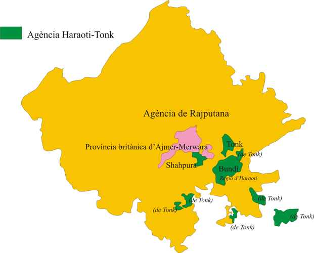 Haraoti-Tonk agency of Rajputana